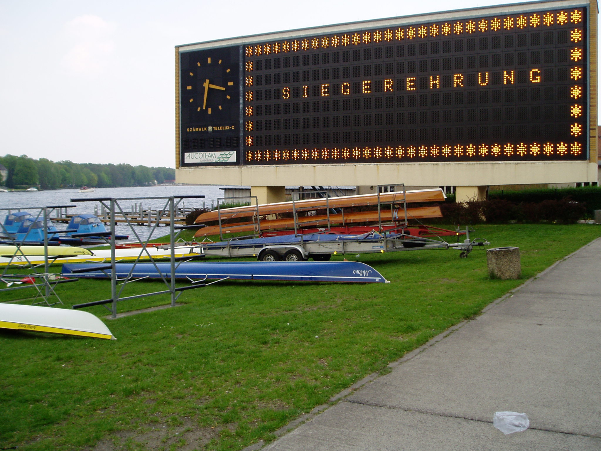 scoreboard of the Regattastrecke Berlin-Grünau